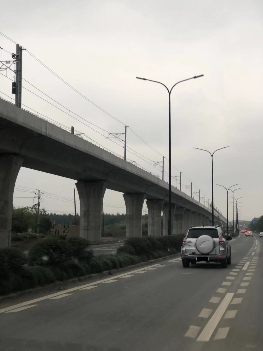 The Line 16 will opening soon. This image was captured during final train test run. As you can see the catenary has been setup.